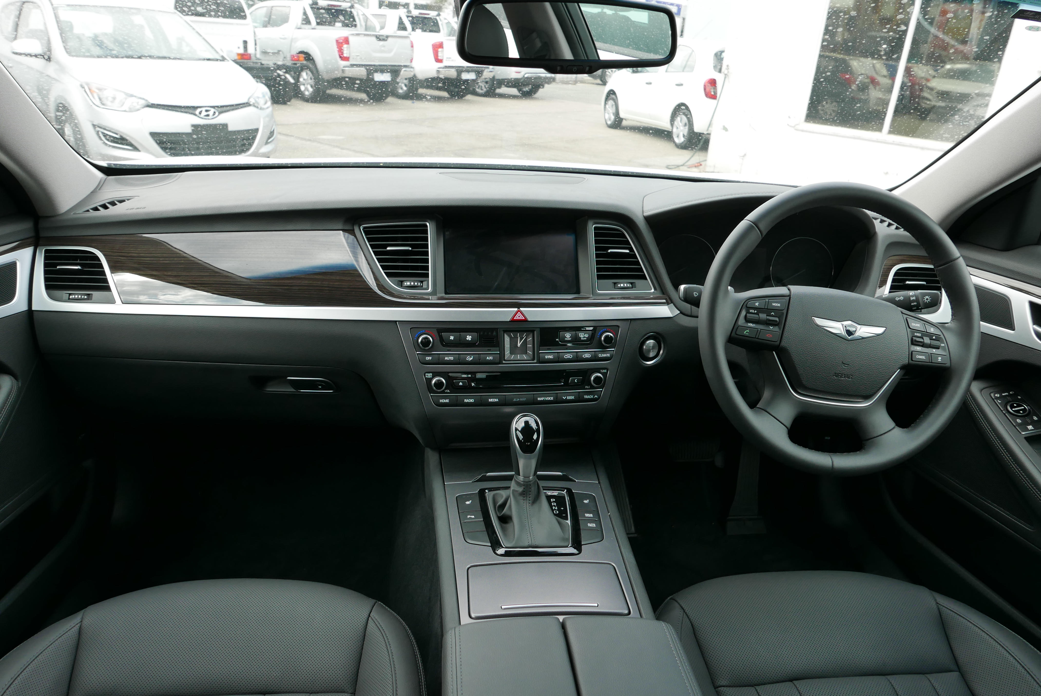 2014 Hyundai Genesis (DH MY15) sedan. This is the base model as per the lack of LED foglights, "Premium" leather upholstery, and button for the around-view monitor [1]. Photographed at Yarra Hyundai, Abbotsford, Victoria, Australia. Vehicle registration enquiry resultsJurisdictionVictoriaRegistrationAGT591Chassis codeKMHGN41EMFU046290Engine codeG6DJEA314887Compliance date2014-11Year of manufacture2014